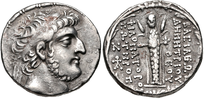 copied from website: "356, Lot: 213. Estimate $300. Sold for $450. This amount does not include the buyer’s fee. SELEUKID KINGS of SYRIA. Demetrios III Eukairos. 97/6-88/7 BC. AR Tetradrachm (26mm, 15.81 g, 12h). Damaskos mint. Dated SE 218 (95/4 BC). Diademed head right / Cult statue of Atargatis standing facing, arms extended, holding flower in left hand, barley stalk rising from each shoulder; N above monogram to outer left, [HIε] (date) and monogram in exergue; all within wreath. SC 2450.7; HHV 36-46 var. (A–/P–[unlisted dies]); HGC 9, 1305; DCA 303. VF, toned, some light deposits."